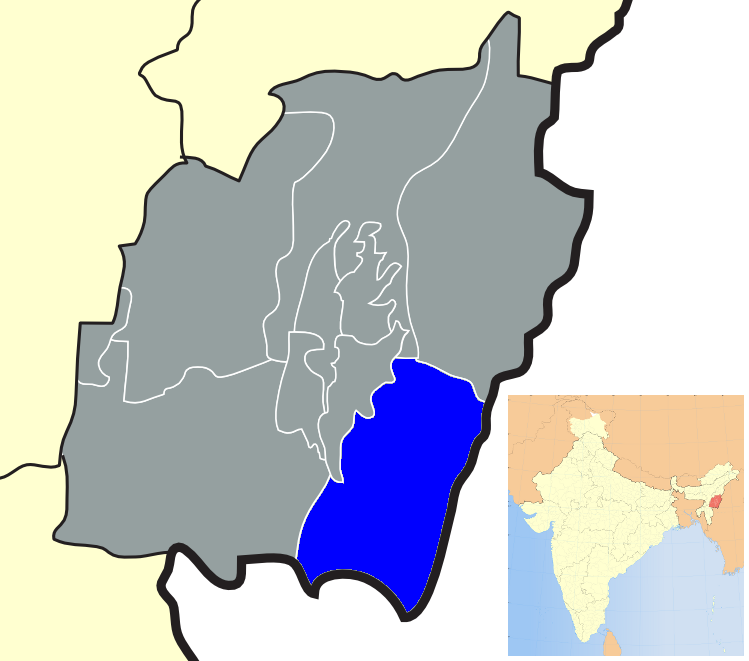 This is a retouched picture, which means that it has been digitally altered from its original version. The original can be viewed here: India Manipur locator map.svg.